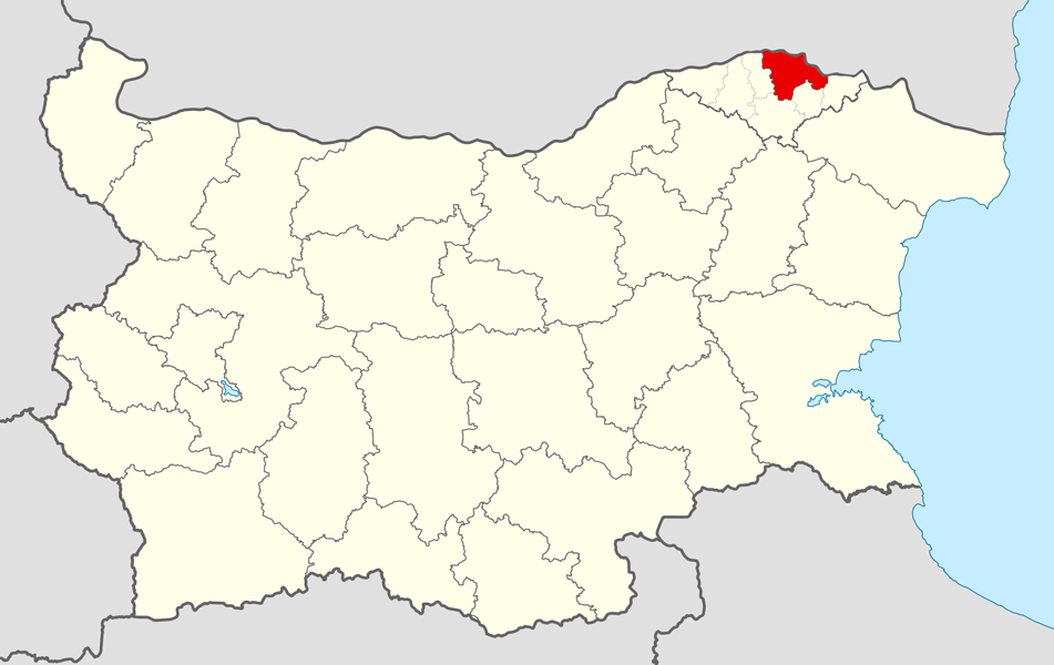 Location map of Silistra Municipality within Bulgaria and Silistra Province. Equirectangular projection, N/S stretching 130 %. Geographic limits of the map: N: 44.4° N S: 41.1° N W: 22.1° E E: 28.9° E